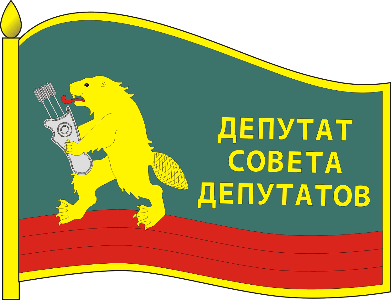 Sign of the deputy of Kolchanovskoe rural settlement, Leningrad Region, Russia